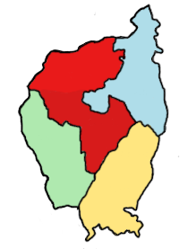 Catholic Province of Dublin. This is a current map of the ecclesiastical province in the Catholic Church. The crosses mark where the current Cathedrals of each diocese is located. The specific dioceses are in different colours.